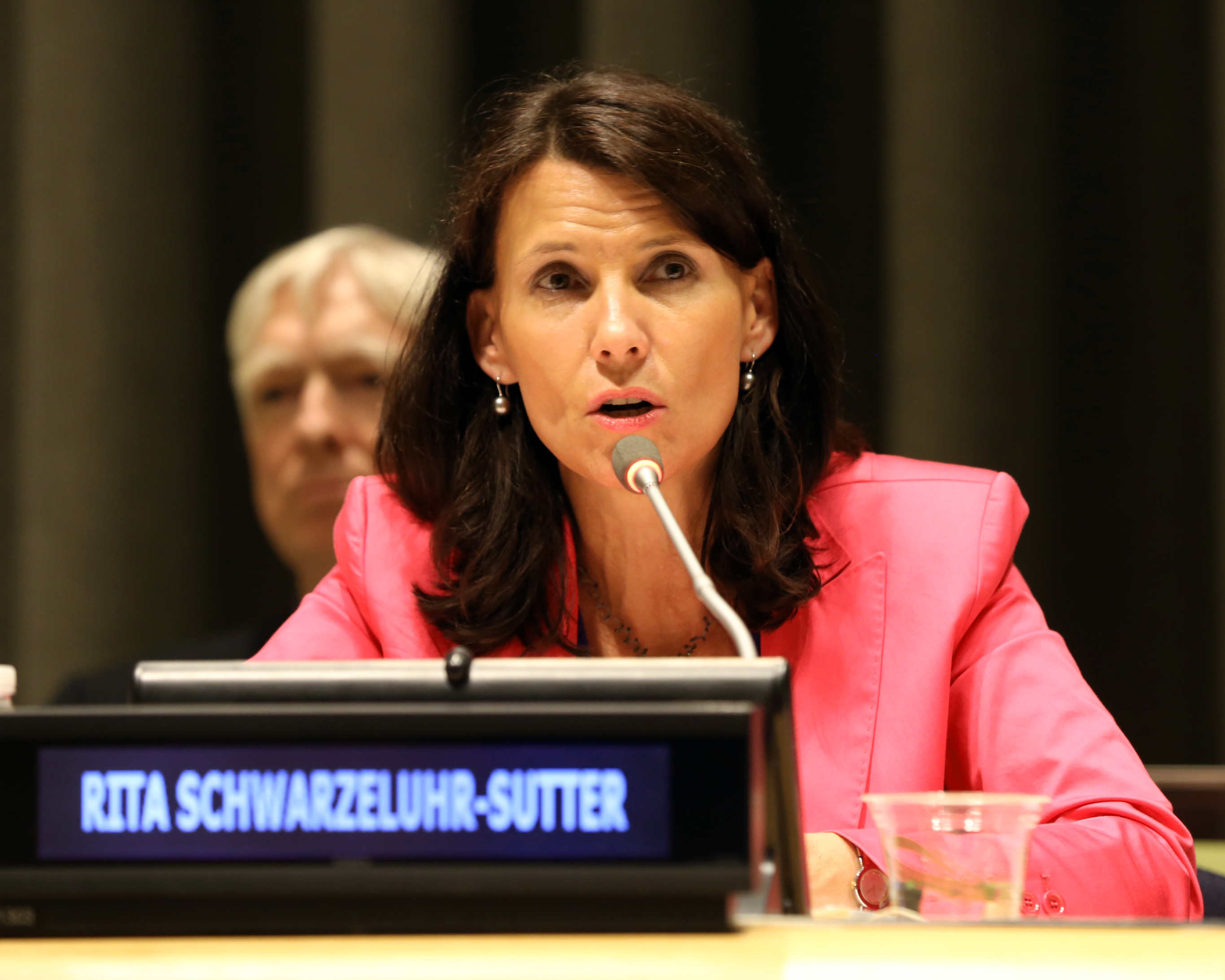 Rita Schwarzelühr-Sutter speaks at UN HLPF, New York City in 2016